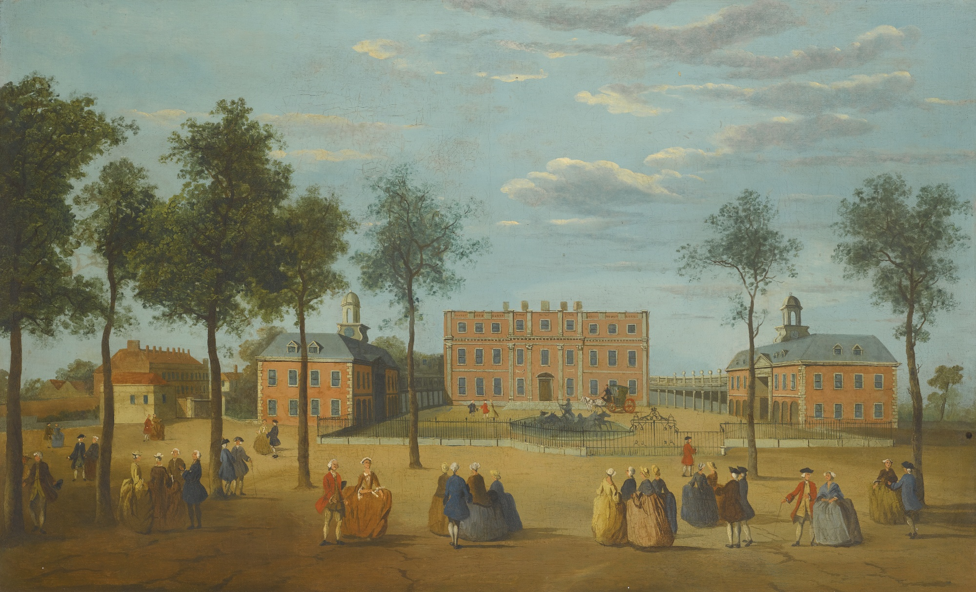 Painting of Old Buckingham House, England, with ladies and gentlemen in 18th century dress strolling through St James's Park in the foreground.